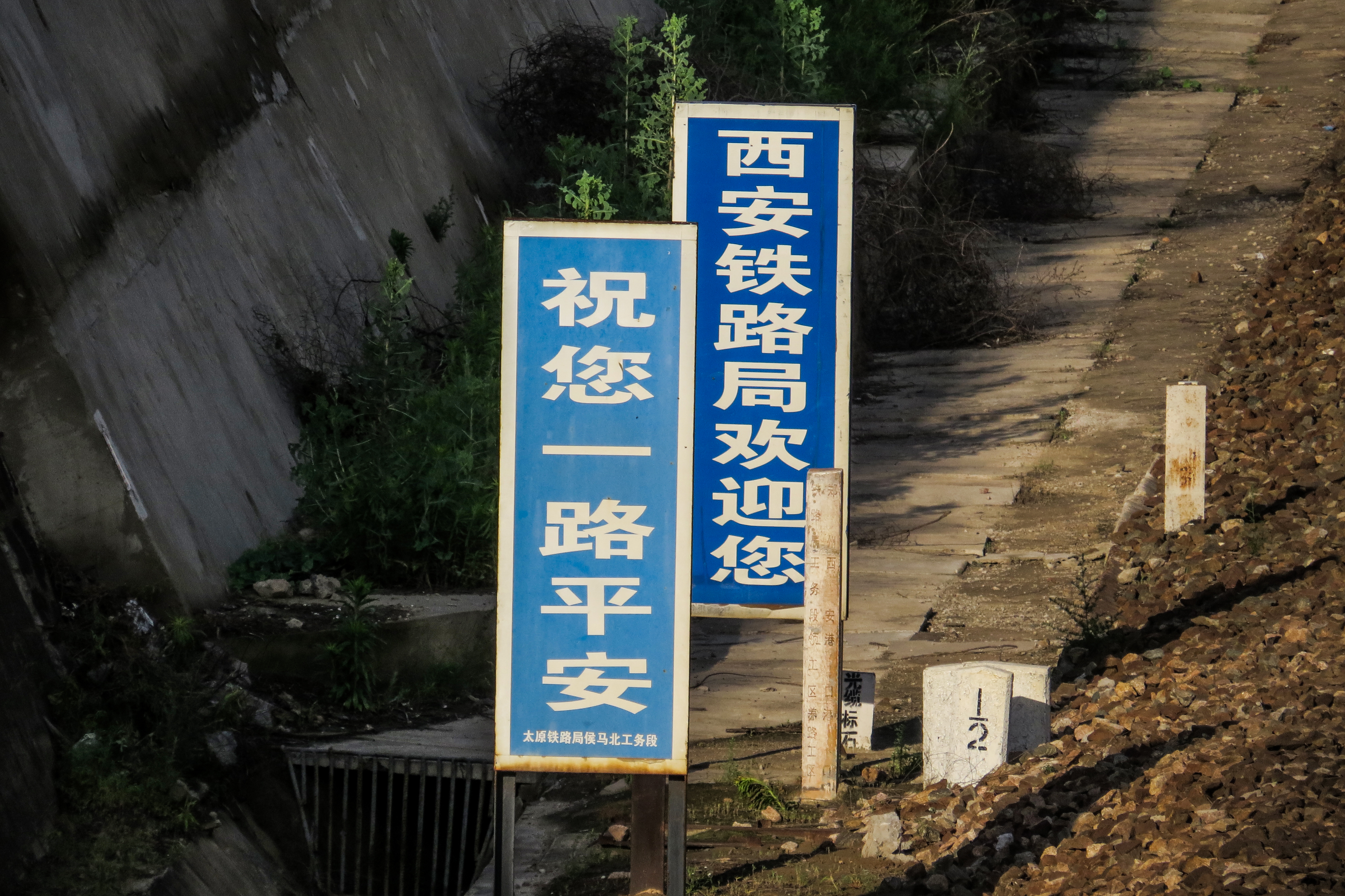 Close to the entrance of Fenglingdu Tunnel.